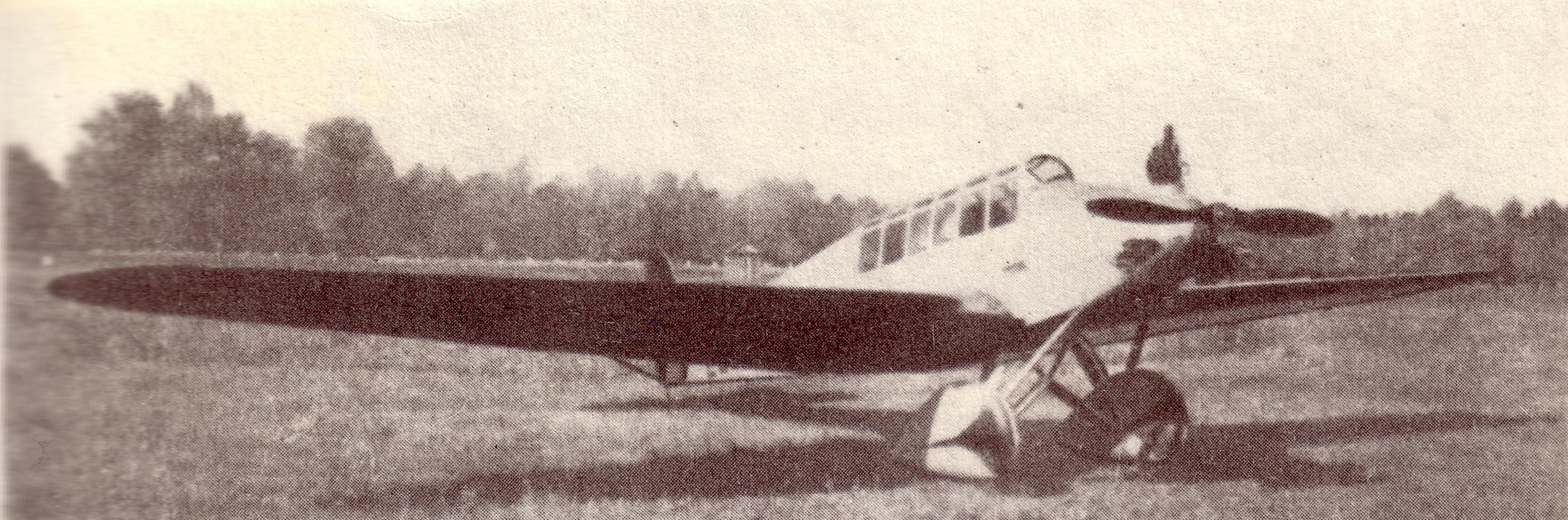 Gratsiansky Omega